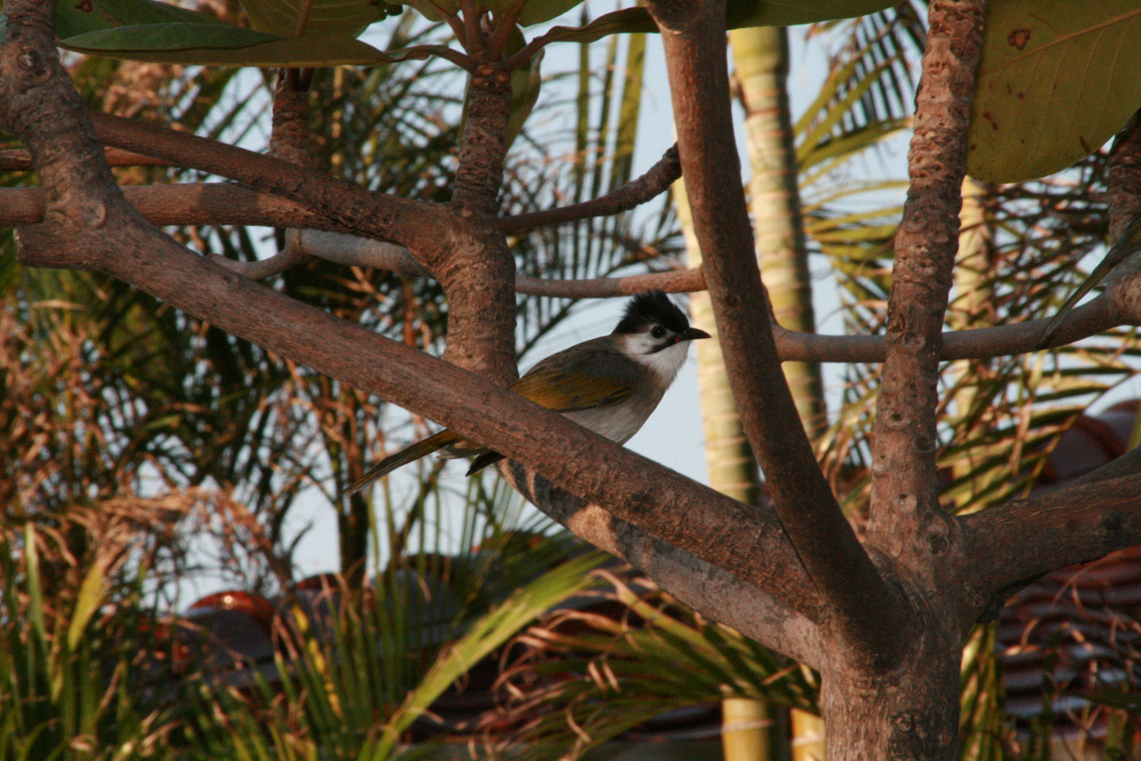 Own photo of a Taiwan Bulbul.